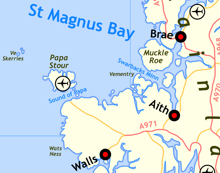 Detail of Wfm shetland map.png